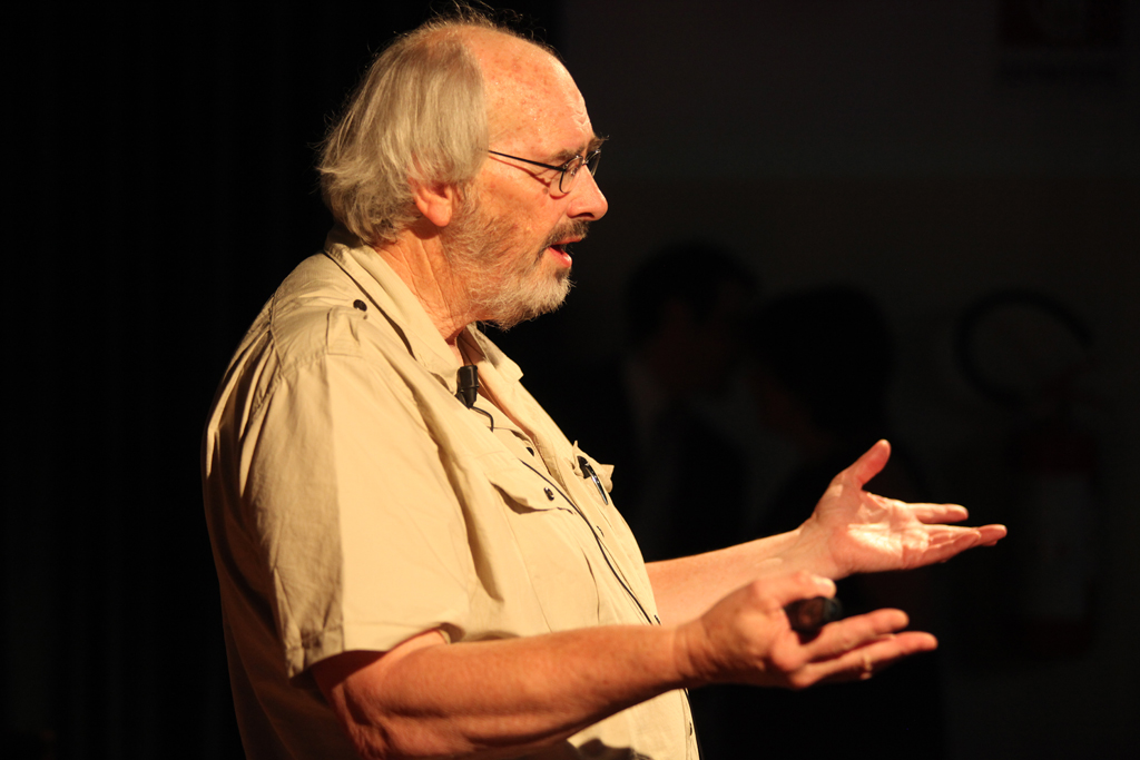 Event: Meet the Media Guru | Jack Horner Date: 29th May 2012 Venue: Museo di Storia Naturale, Milan, Italy Twitter: @mmguru / #MMGHorner Photo by Paolo Sacchi